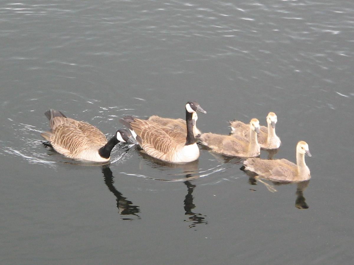 Canadian Geese family on lake at Black Moshannon State Park, near Phillipsburg, Rush Township, Centre County, Pennsylvania, USA.